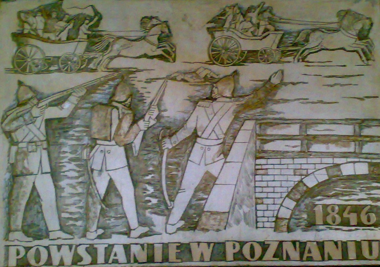 Poznan Uprising 1846.